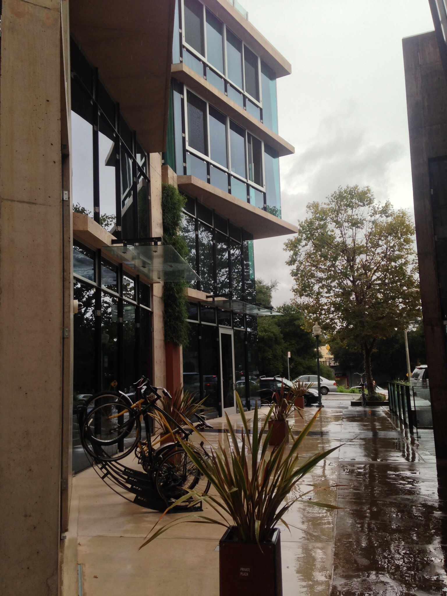 Margaret Battaglia Plaza, at the 102 University Avenue building — in Palo Alto, California.